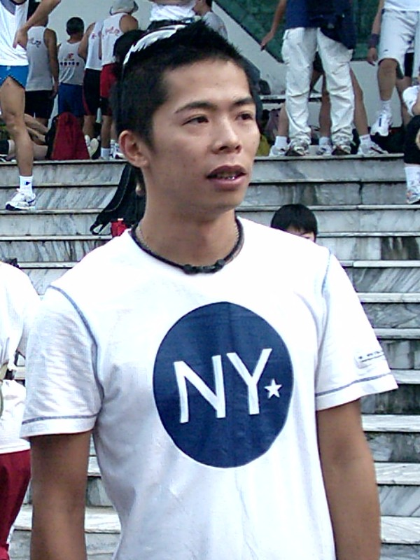 Kevin Y. C. Lin, a Taiwanese ultra-marathon runner.